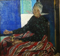 Portrait of an old Dutch woman